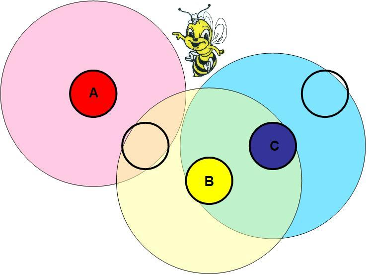 This illustrates how spatial structure may be required in a model. If the small circles represent bee colonies and the larger circles the territory of each, then it is clear that these colonies can influence each other. In this example, there is a lot of overlap, and hence competition, between neighboring colonies. There is a small amount of overlap between colonies two away from each other, and no overlap between colonies three away from each other. Colonies three apart can effect each other, however, through their influences on the colonies next to them and two away.